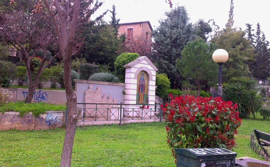 agia-filothei